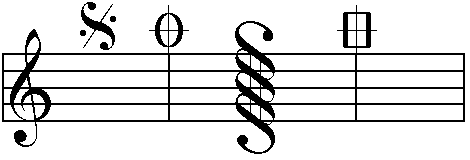 Alternative representations »Dal Segno« and »Coda« as provided by »musixtex«